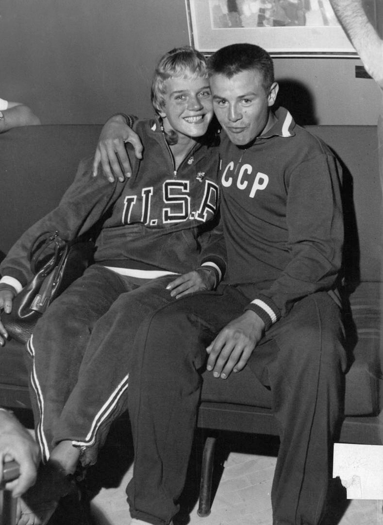 Doris Fuchs and Boris Nikonorov at the Rome Olympics